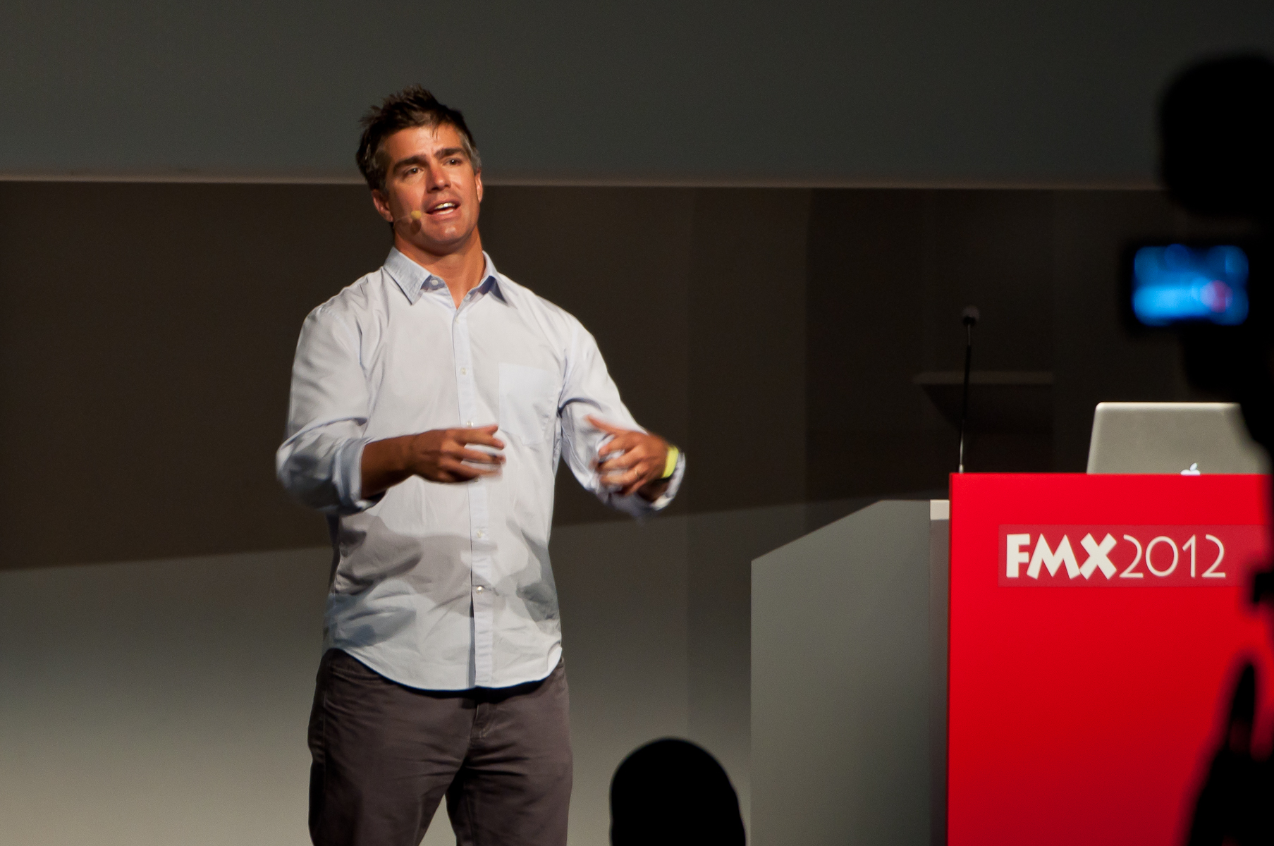 Loni Peristere, creative director and founder of Zoic Studios at FMX 2012. (Haus der Wirtschaft, Stuttgart, Germany)